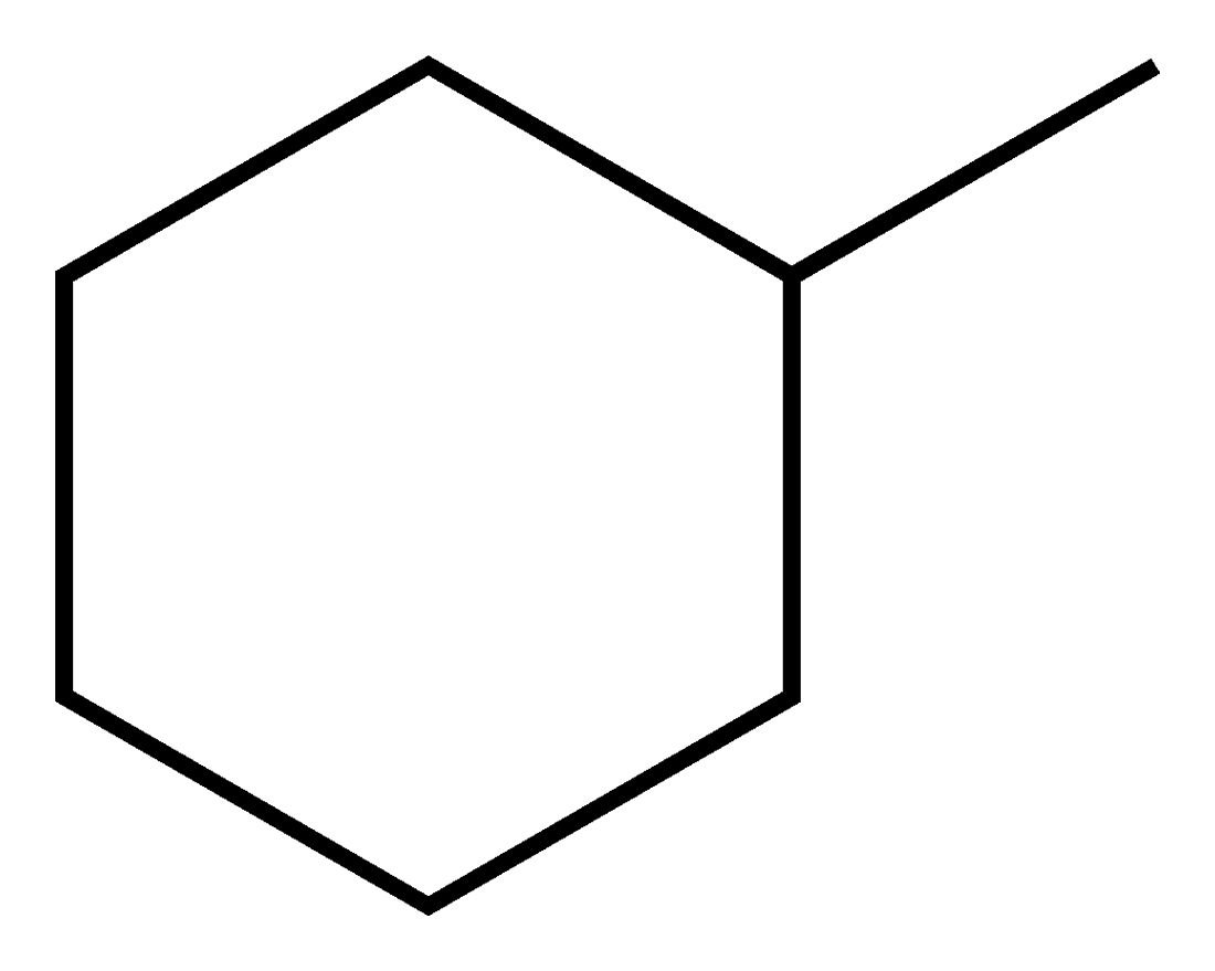 Skeletal formula of methylcyclohexane